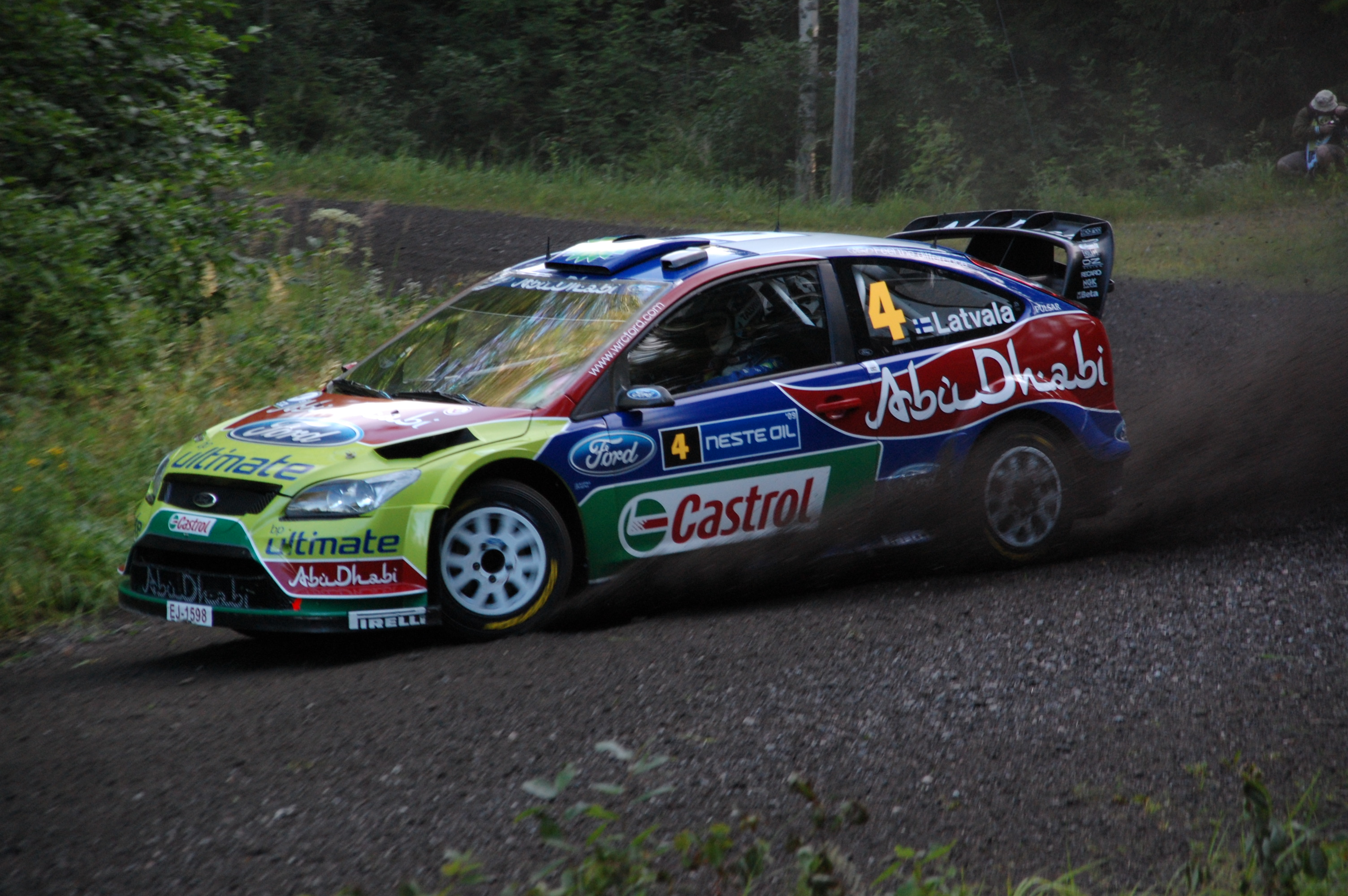 Jari-Matti Latvala - 2009 Rally Finland. More pictures on my website